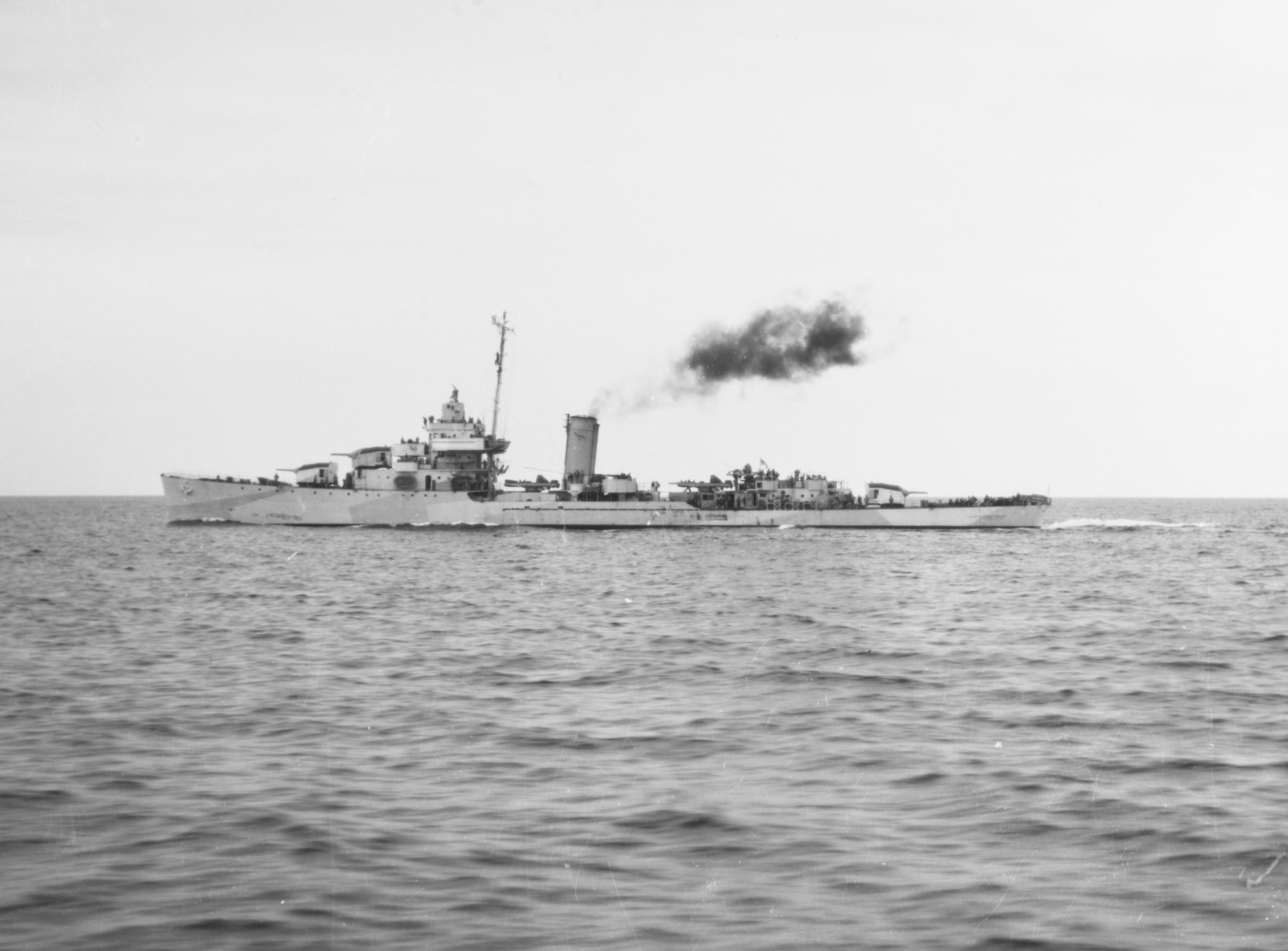 The U.S. Navy destroyer USS Warrington (DD-383) underway in the Las Perlas Archipelago, Panama Canal Zone, 23 April 1943. Note that she is painted in the seldom used Camouflage Measure 16.